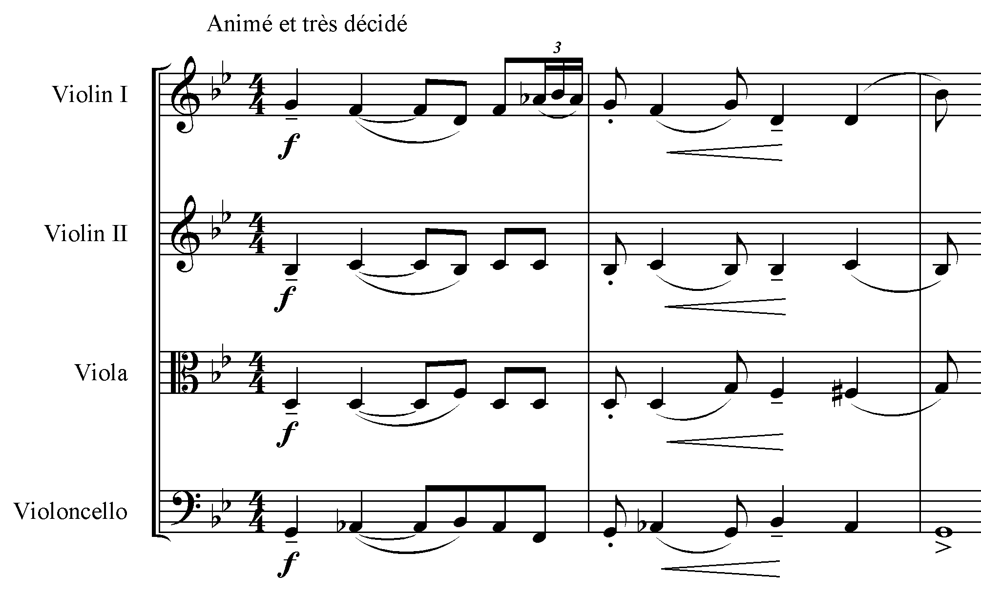 Debussy String quartet